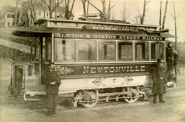 A car of the Newton and Boston Street Railway (merged with the Middlesex and Boston Street Railway in 1909)